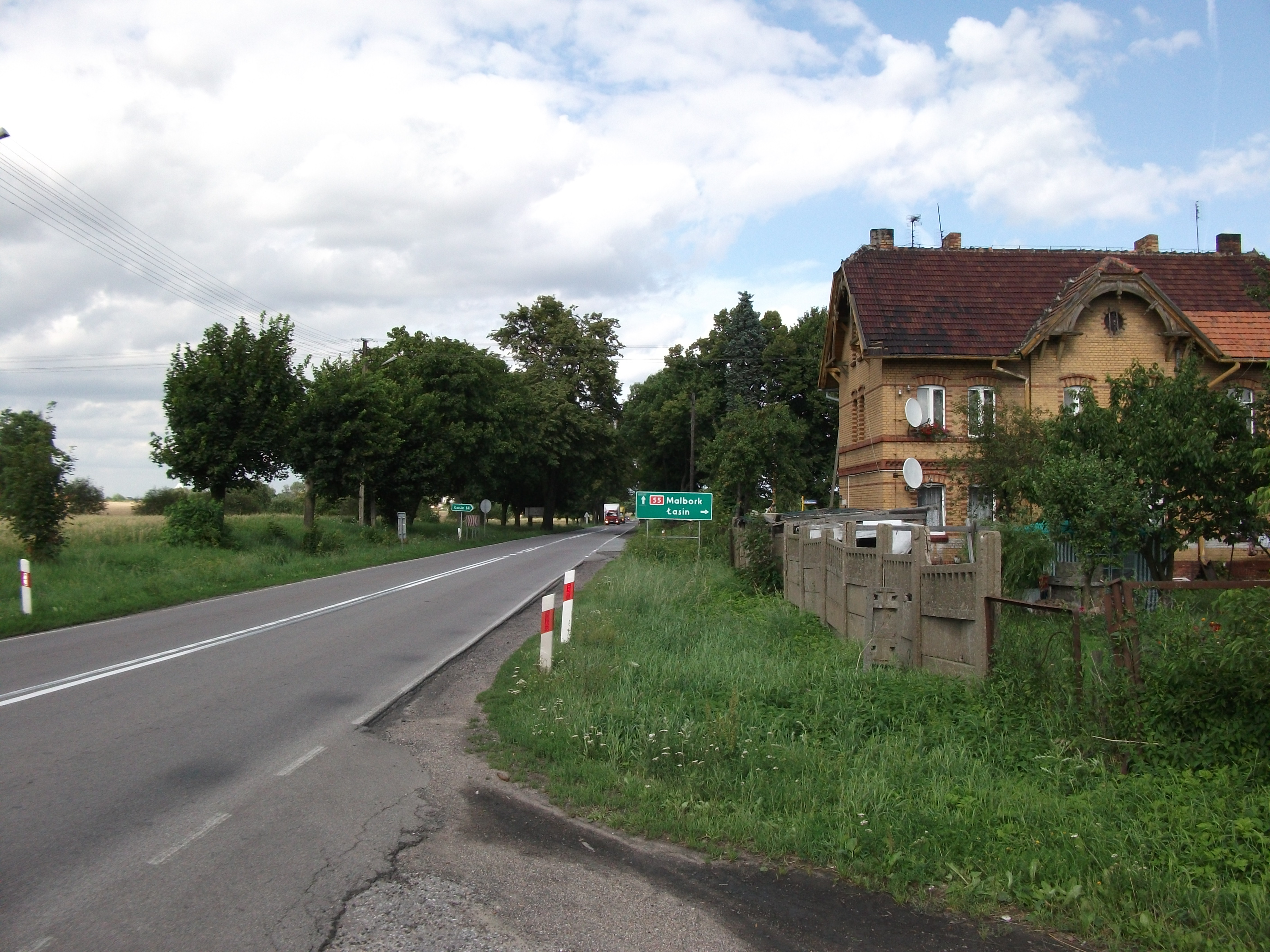 National road 55 (Poland)